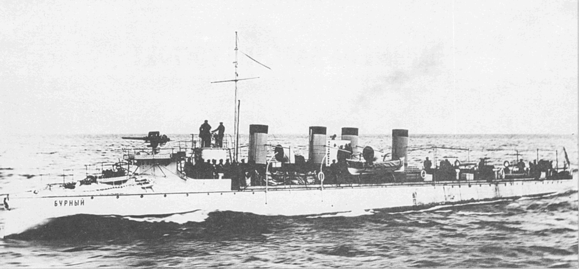 In october 1902 Imperial Russian destroyer Bedovurnyi put for the Far East.